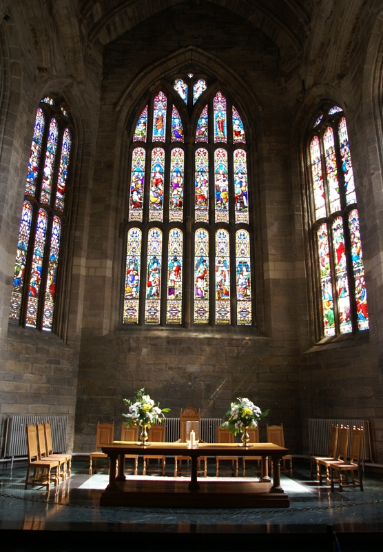 Church of the Holy Rude, Stirling, Scotland - apse